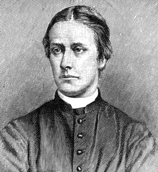 Portrait of Sabine Baring-Gould, age 35